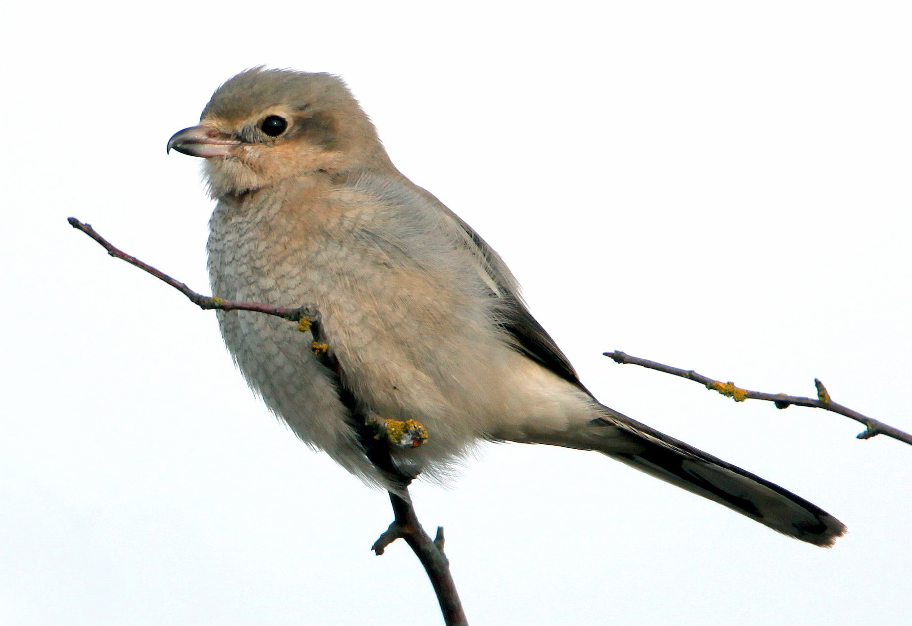 Northern Shrike Lanius borealis, Boundary Bay, BC-WA, Canada/United States.